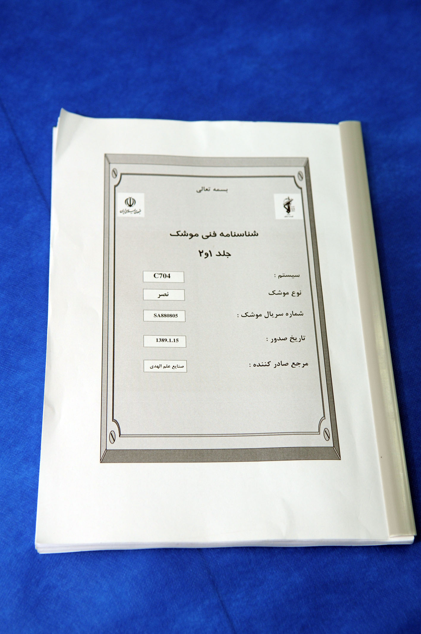 Missile identification document in Persian which bears the Iranian governmental emblem found on-board the "Victoria", a cargo vessel headed to Egypt from Syria, and reads the name of the missile ("Nasser") found on the ship, the missile system (C-704), date of manufacture. The crew of the "Victoria" unknowingly shipped arms that were to be transferred to terrorist organizations in the Gaza Strip. For more information on the "Victoria" ship: For footage of the IDF boarding the Victoria: For more photos of weaponry and an Iranian document found on the ship